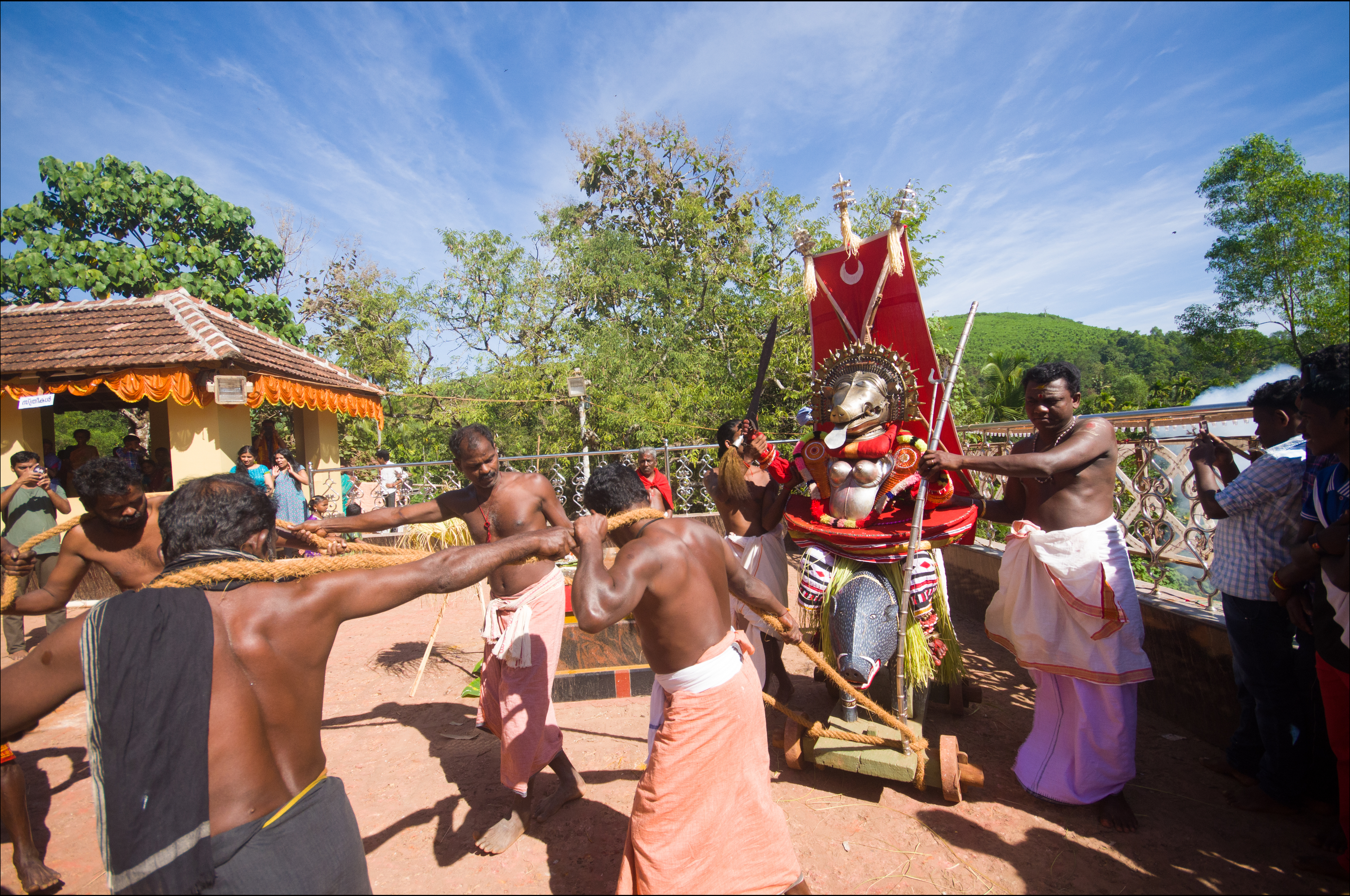 Pachuruli theyyam performed at Nalvar Daivasthanam,Kanathur,Kasarkod district,Kerala. Here the performer wearing the metal mask of a wild boar and sitting on a wooden cart which is being pulled by devotees.